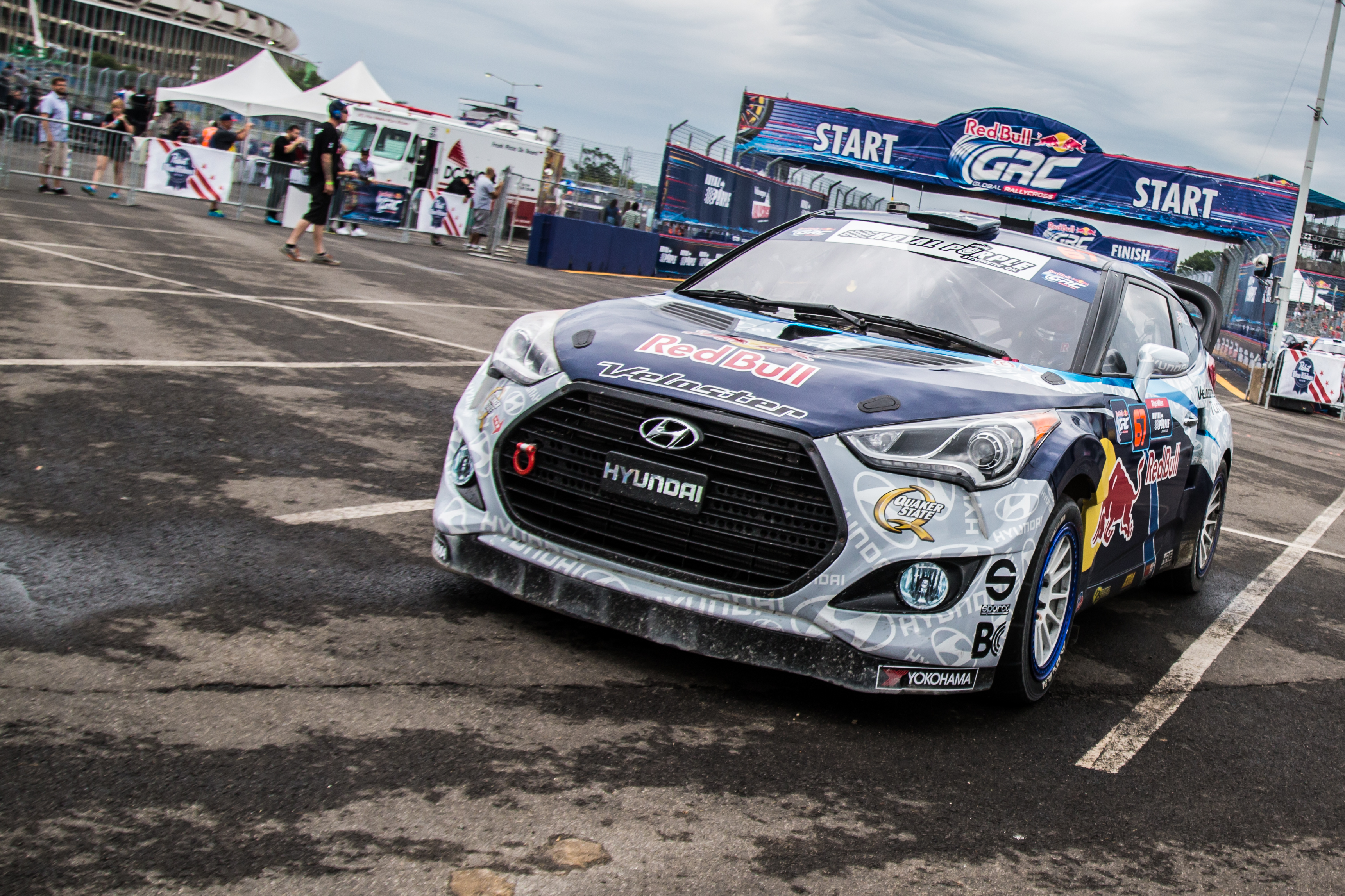 Rhys Millen in his Hyundai Veloster Turbo Supercar. Round 3 of the 2014 Global RallyCross Championship at RFK Stadium, Washington D.C.